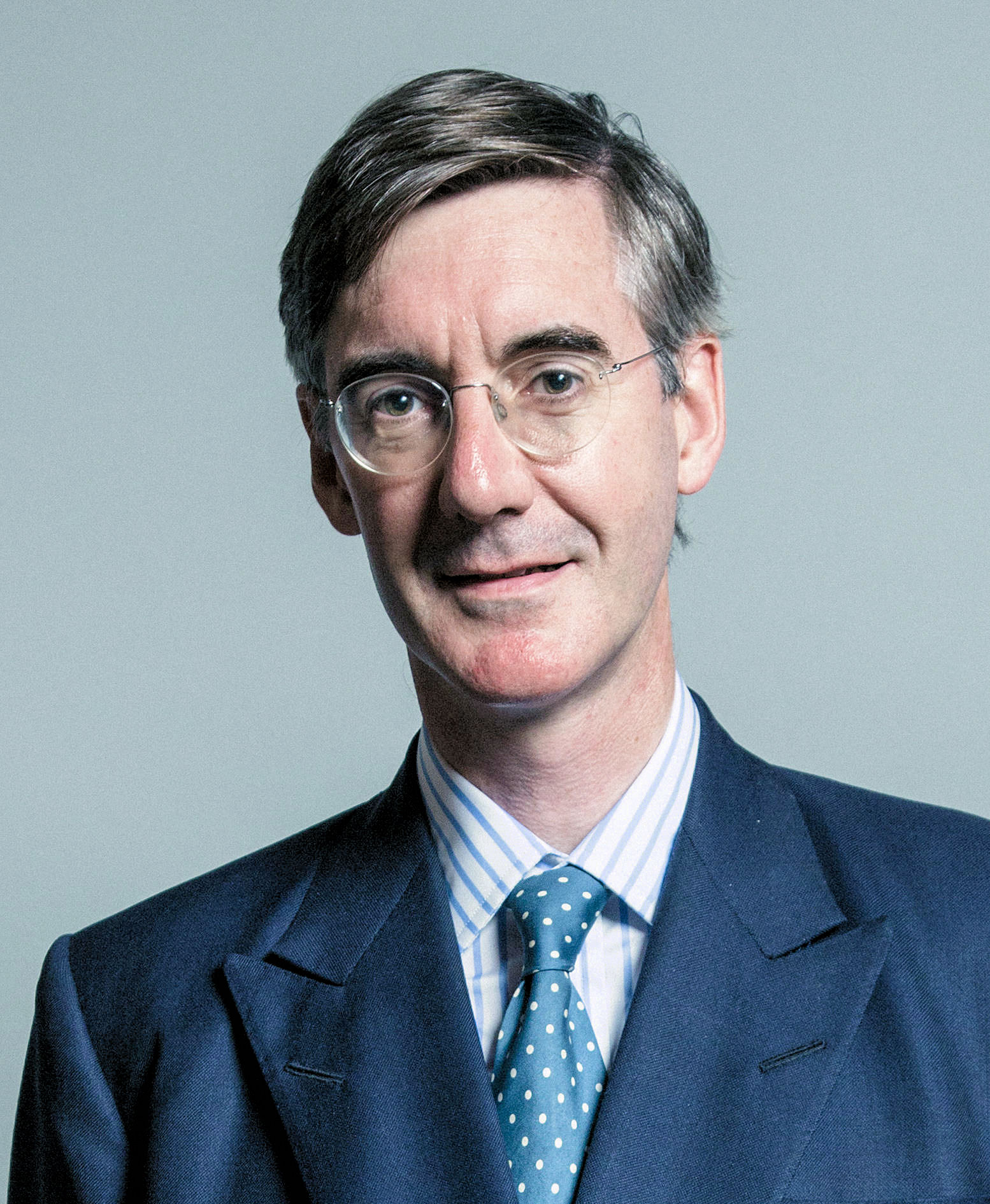 Official portrait of Mr Jacob Rees-Mogg